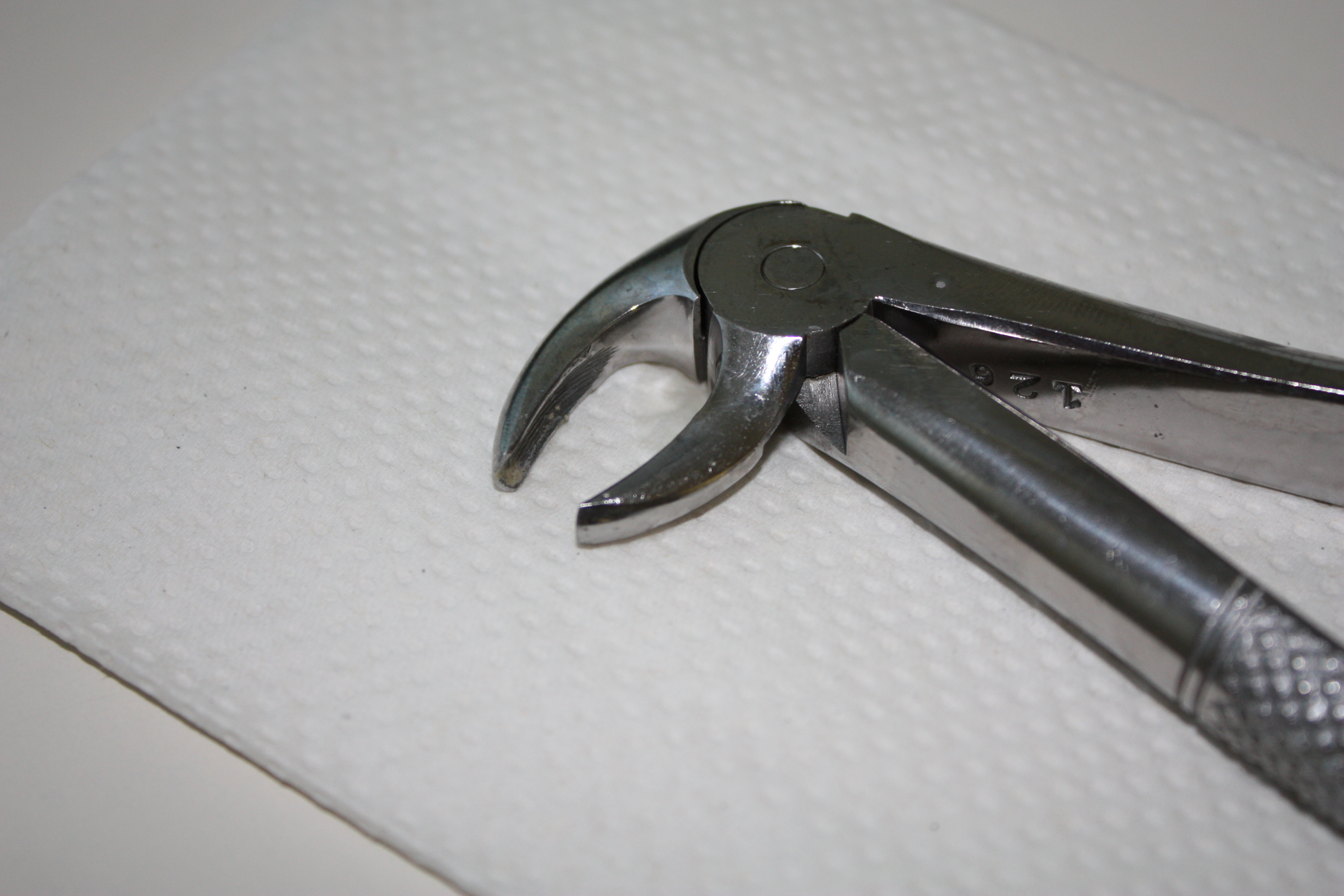 Extracting forceps, Extraktionszange, Zahnzange